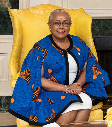 Kenya First Lady Margaret Kenyatta seated in the Diplomatic Reception Room of the White House during an official visit.